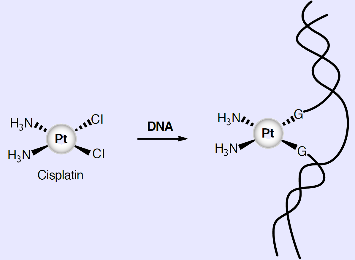 Schematic representation of the platinum-DNA-complex formation (in vivo).